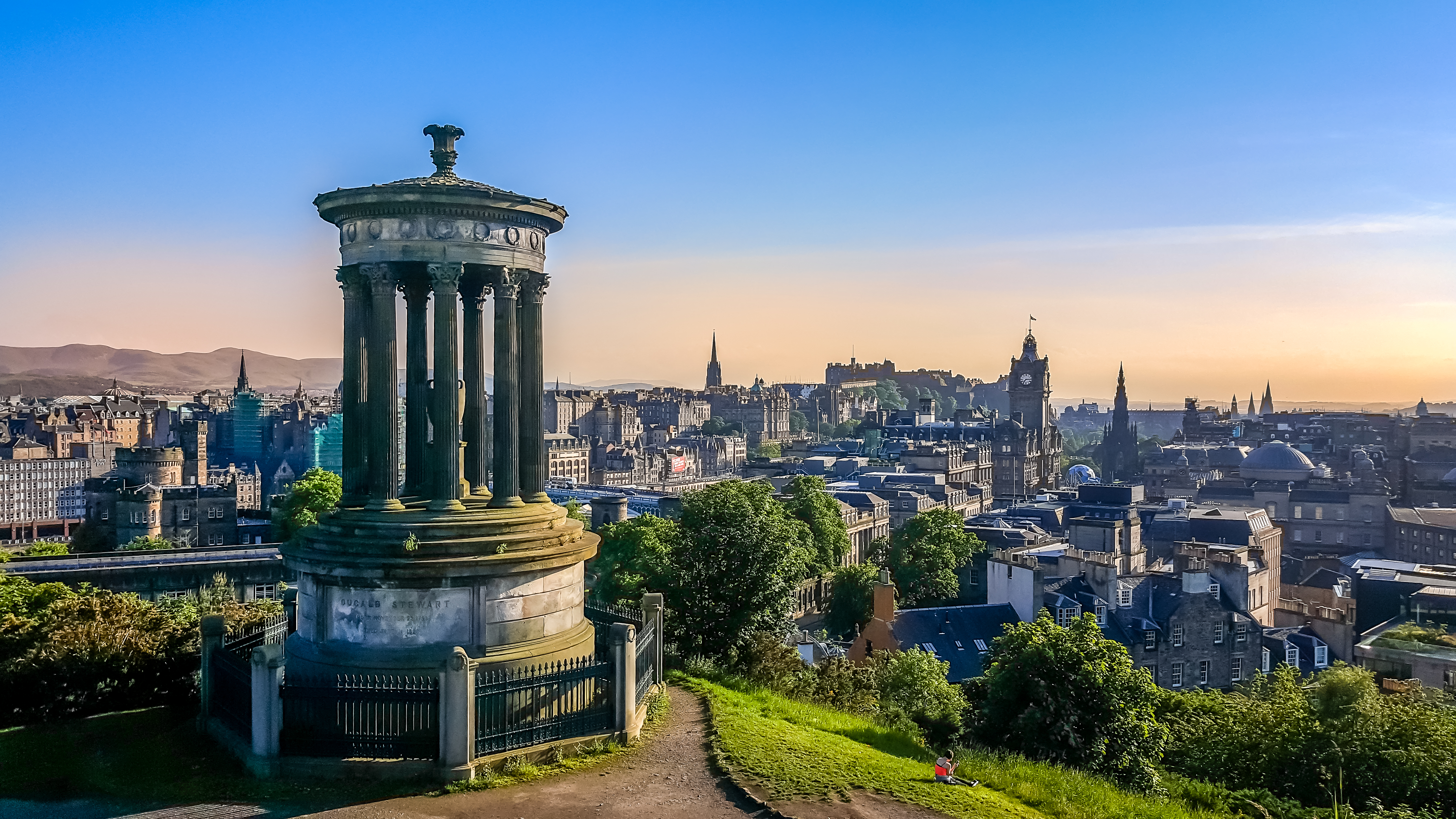 Skyline of the city of Edinburgh in Scotland